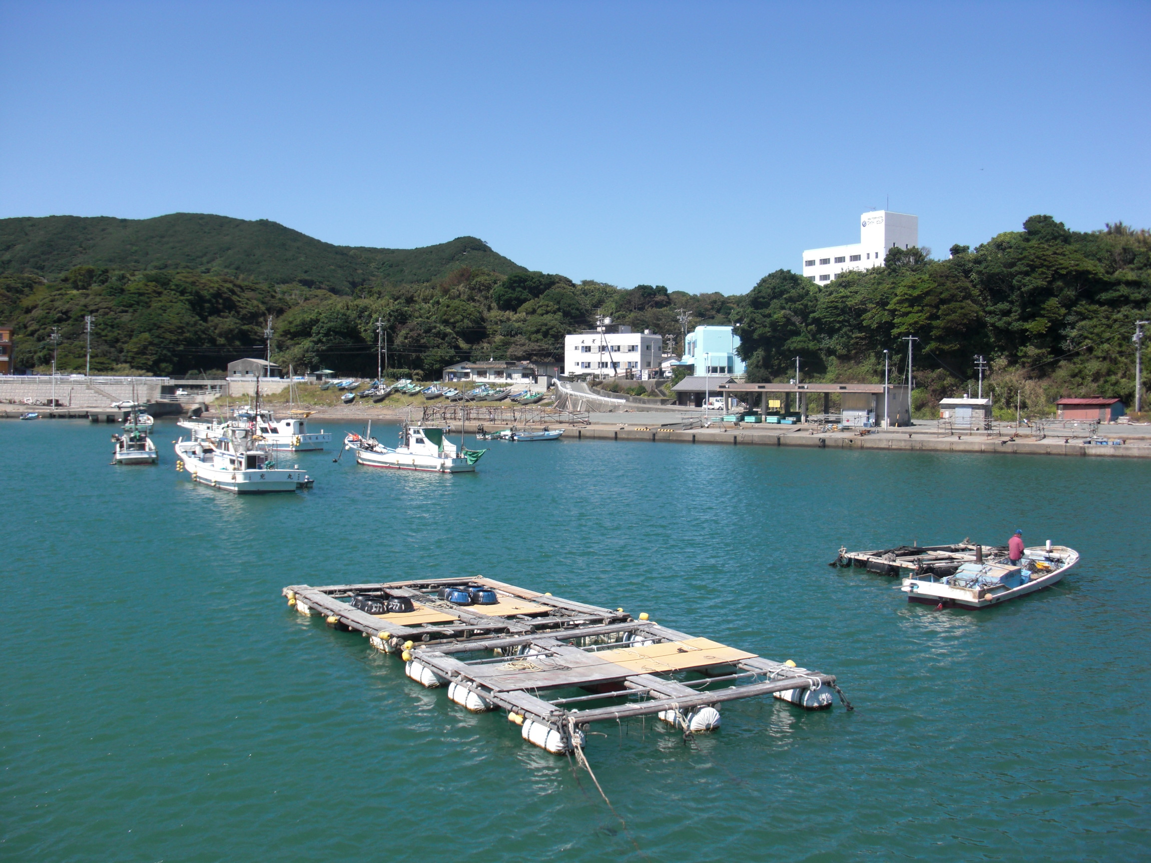 This is a scene of Kuzaki fish port in Toba, Mie, Japan.